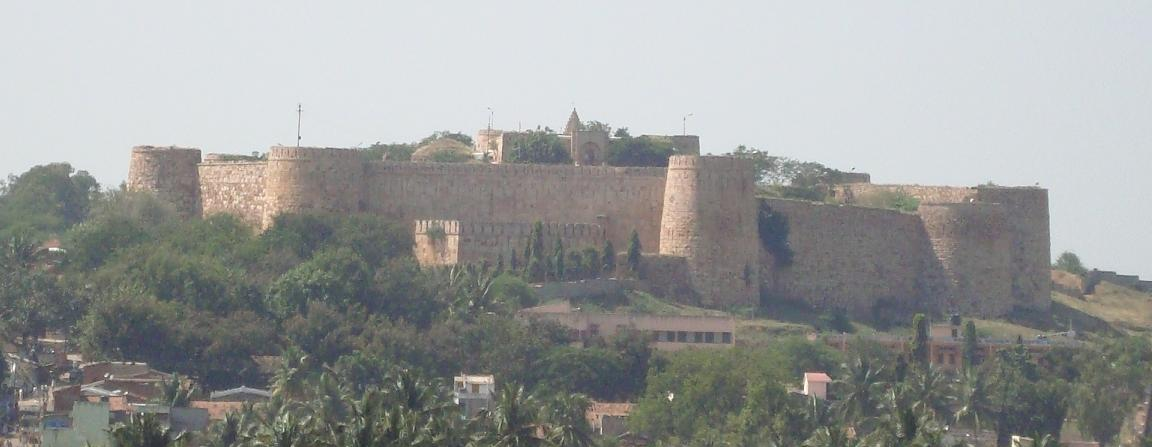 Savadatti Fort Author and Source : Manjunath Doddamani, Gajendragad, Karnataka (North), India